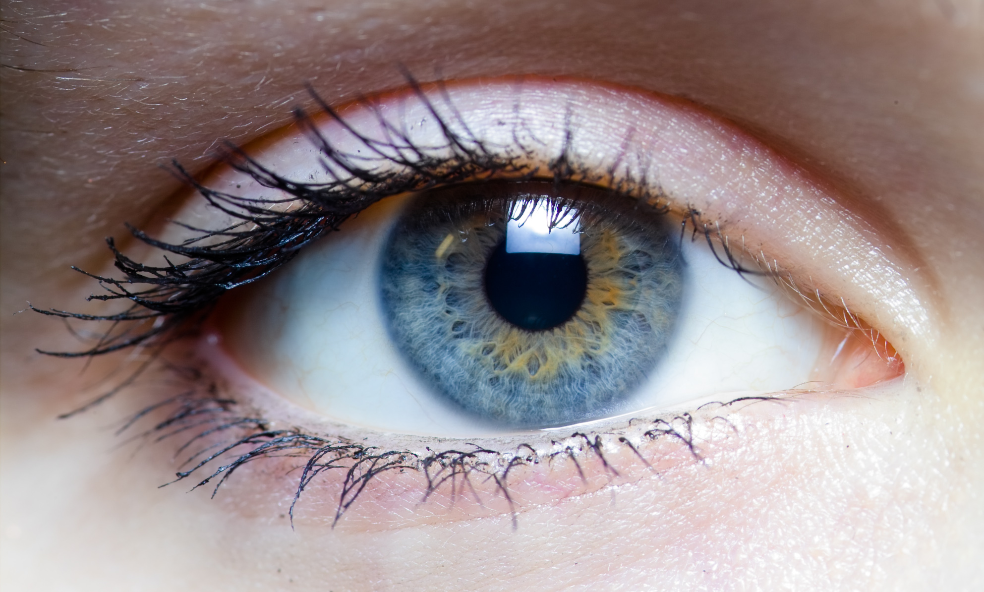 Iris (right eye)